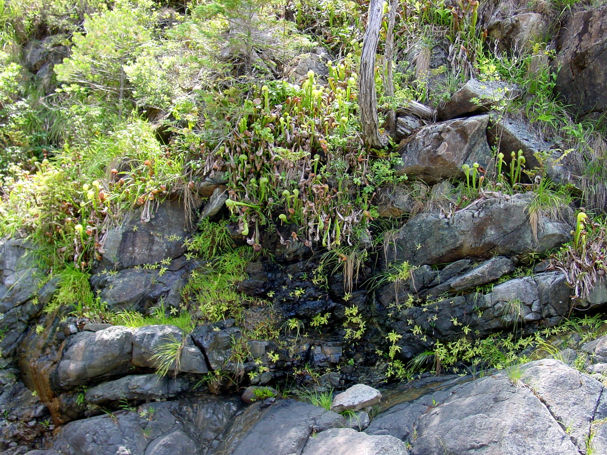 Description: Darlingtonia californica (California pitcher plant), and Pinguicula macroceras ssp. nortensis (butterwort) — on a serpentinite seep. Location: Rocky Creek Trail, Oregon. Picture taken by: NoahElhardt Date: 7/8/05